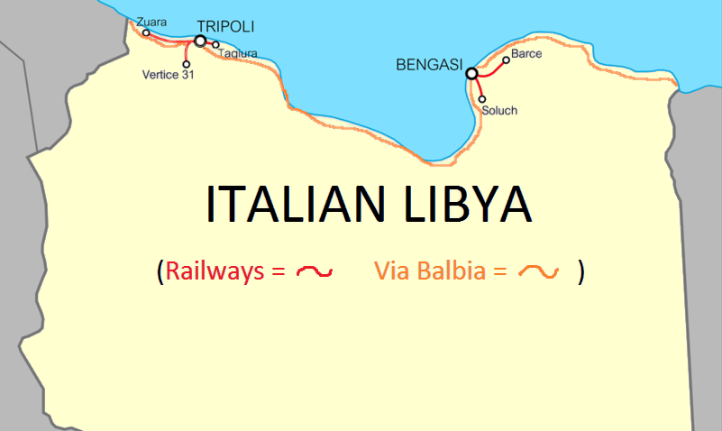 On a map of Commons File:Rete ferroviaria Libia Italiana.png about railways in Italian Libya I have added in orange the "Via Balbia", a coastal road built by the Italian government from Tunisia to Egypt. I have added data with my software.